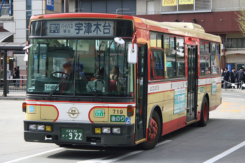 Nishi Tokyo Bus's route bus (Car No.A5719 / Nissan Diesel KC-JP250NTN / FHI 8E body) at Hachioji Station North Exit, Hachioji, Tokyo, Japan